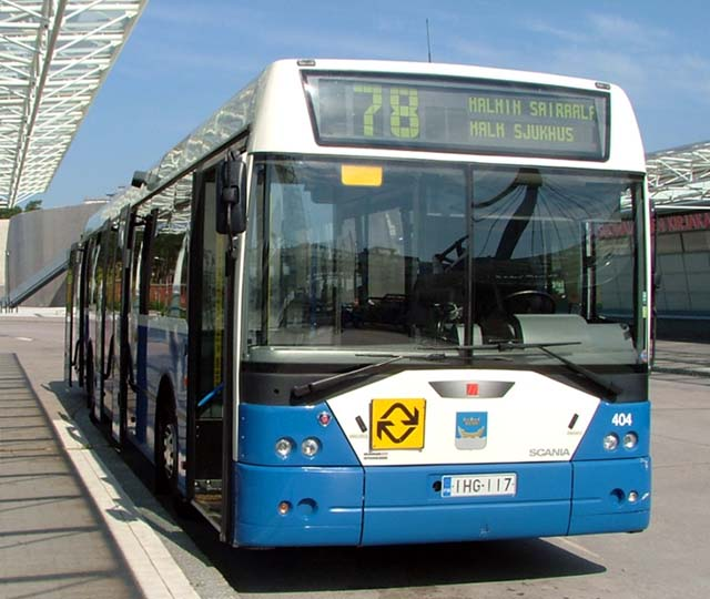 Ikarus E94F local bus (#404) with Scania L94UB chassis at its terminal stop in Vuosaari, a district in Eastern Helsinki, in August 2004. Bus built 2003, HKL-Bussiliikenne operator.